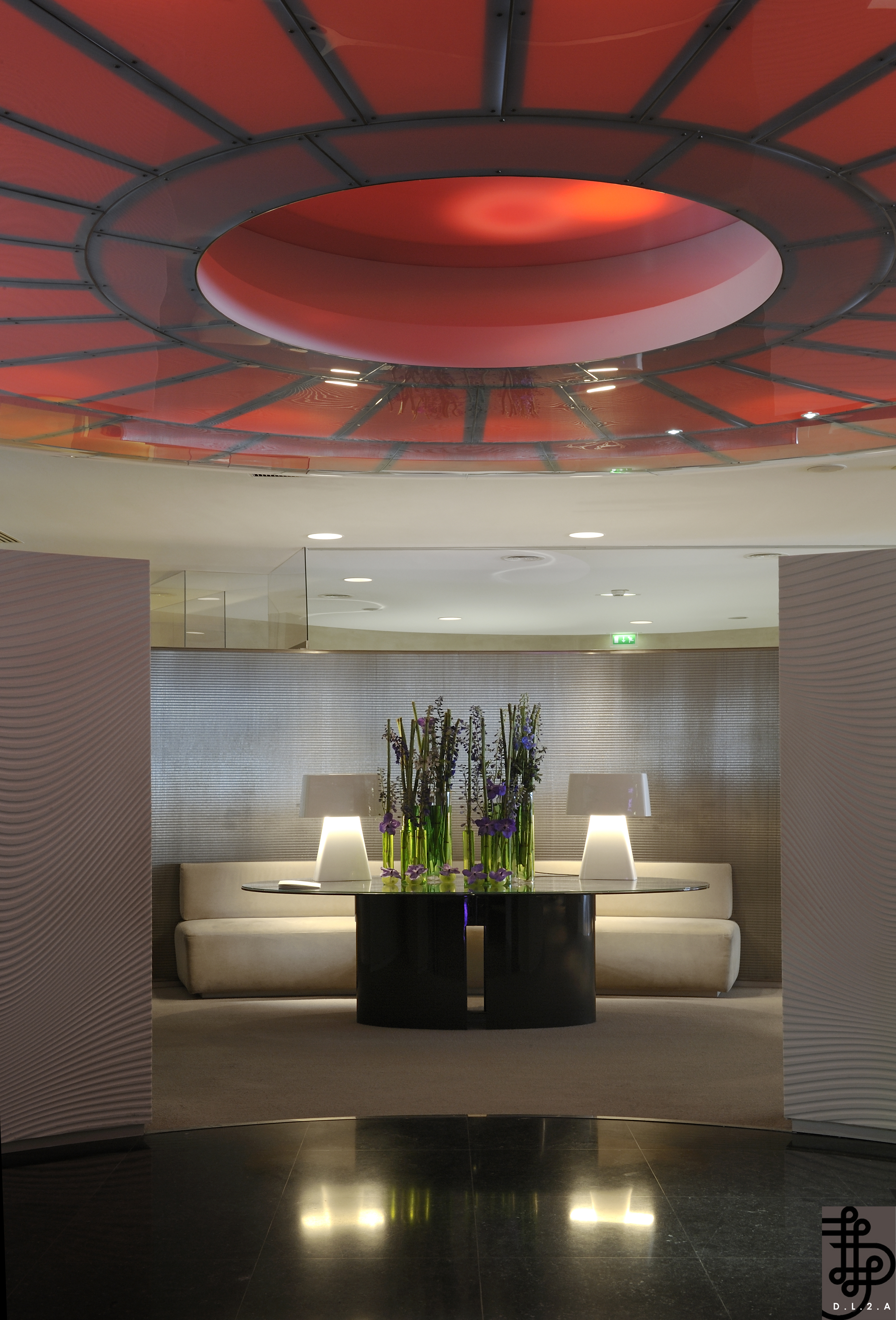 DL2A Salon première Air France PARIS CDG Roissy